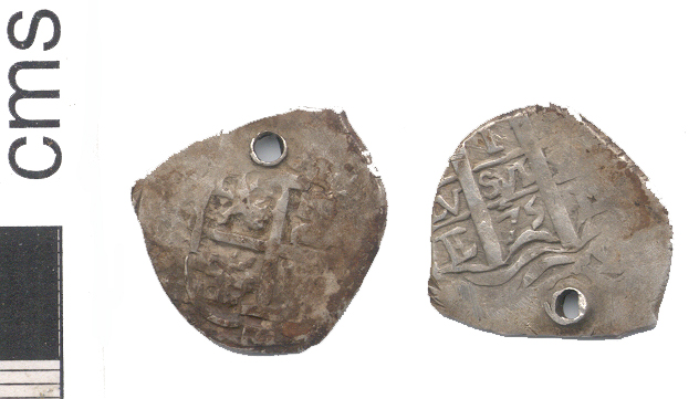 A colonial Spanish silver 1 Real, also known as a Piece of Eight. The real is of the the Pillars and Waves type and was struck in 1675 in Potosi in Bolivia, during the regin of Charles II of Spain. The coin is in reasonable condition although it is quite worn. It has been pierced, presumably for suspension around the neck.